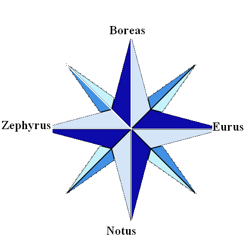 winds according to Homer